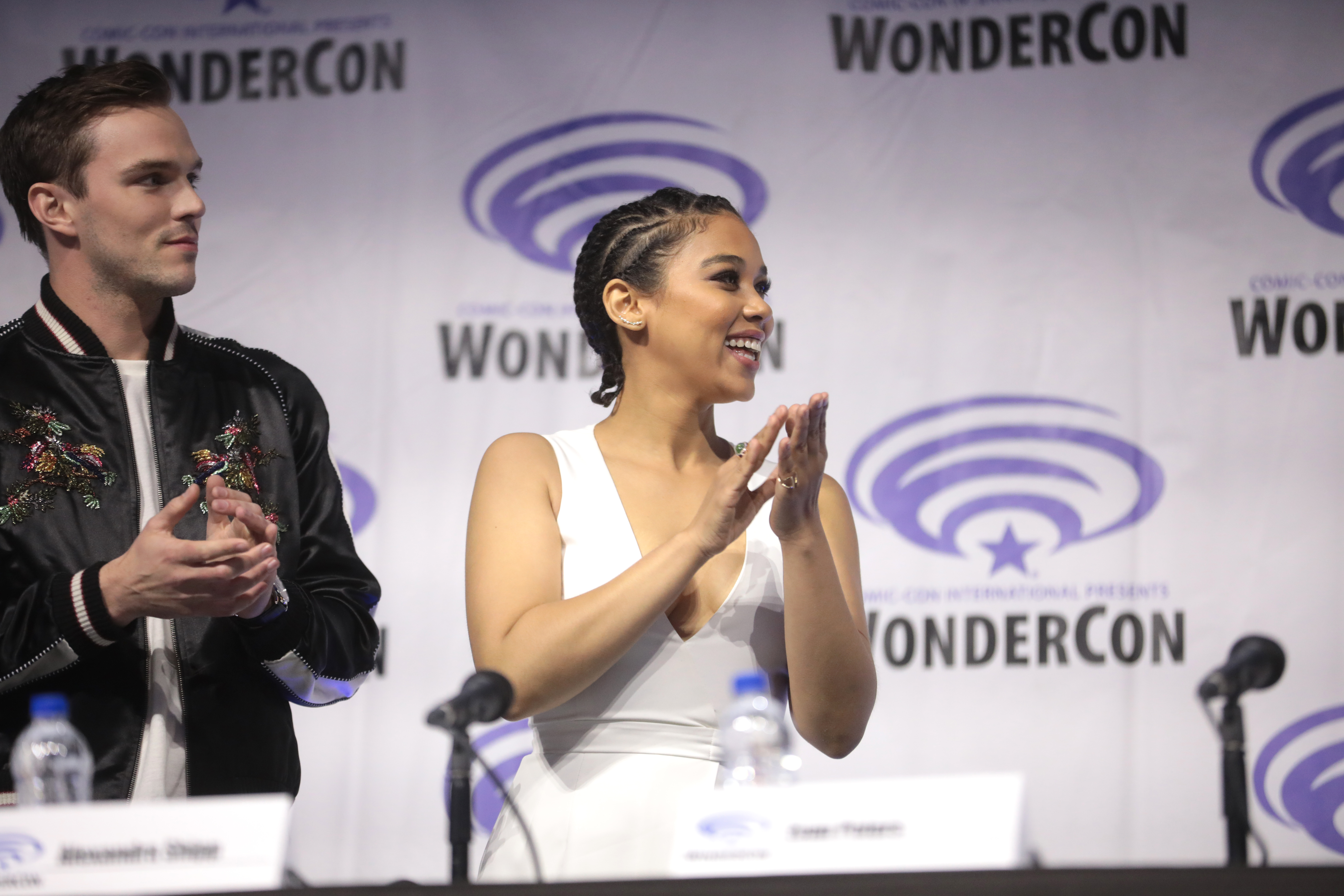 Nicholas Hoult and Alexandra Shipp speaking at the 2019 WonderCon, for "Dark Phoenix", at the Anaheim Convention Center in Anaheim, California.